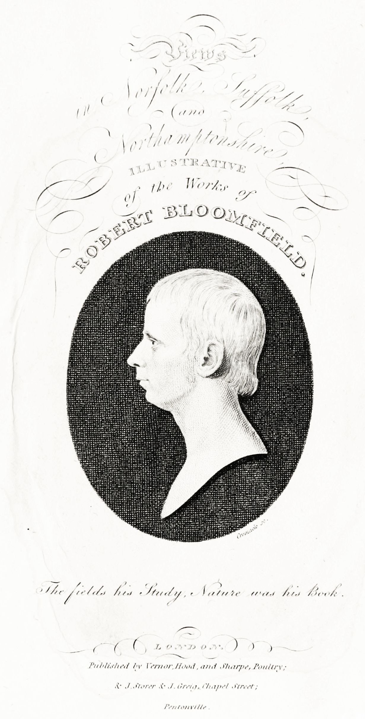 Frontispiece from the "Views in Suffolk, Norfolk, and Northamptonshire" with image of Robert Bloomfield Views in Suffolk, Norfolk, and Northamptonshire: illustrative of the works of Robert Bloomfield: accompanied with descriptions: to which is annexed a memoir of the poet's life